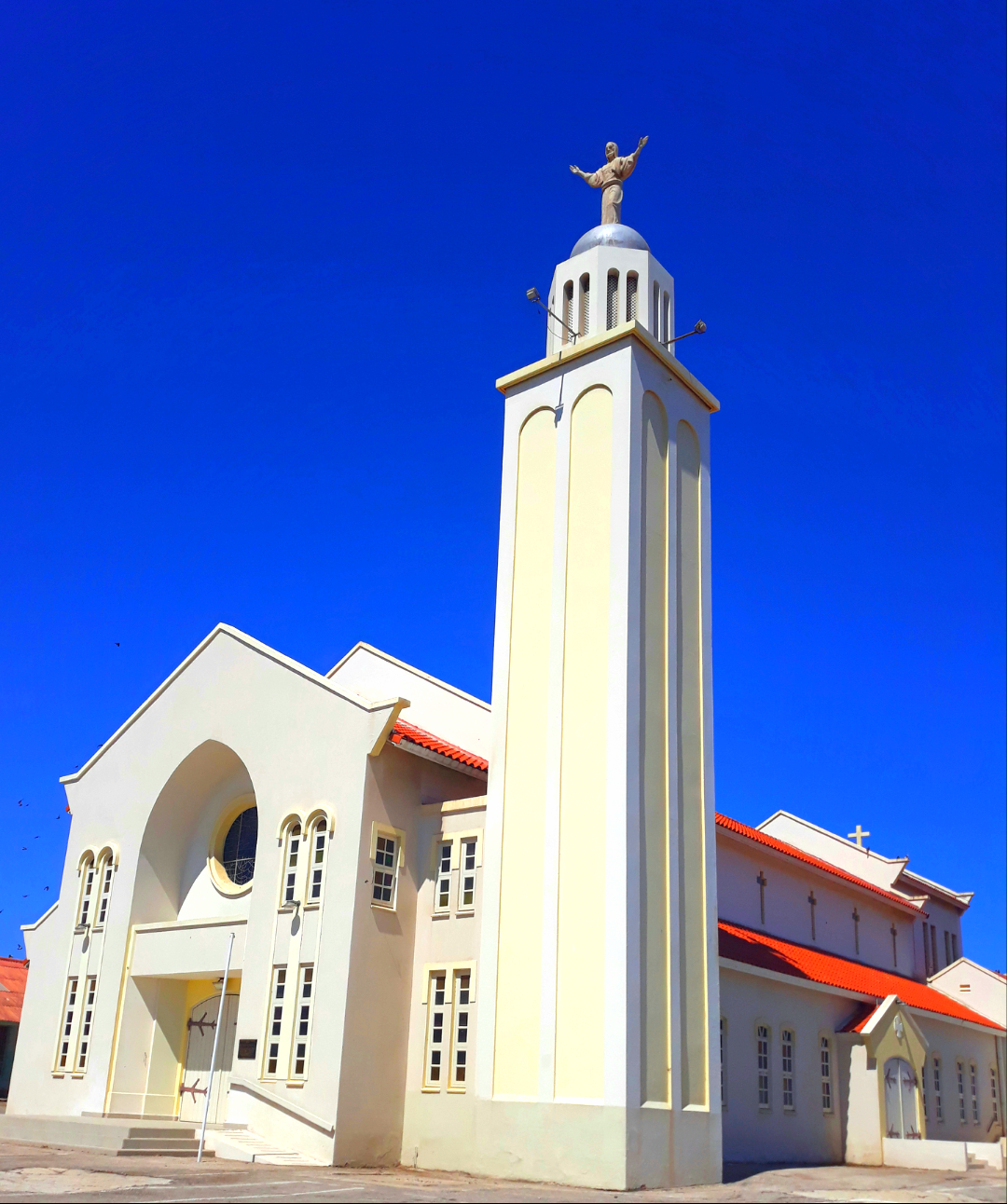 This Roman Catolic Church was built in 1955. It's located in the area of BRASIL, Aruba. On the top of the tower in the front, there is a statue of Christ sending holy blessings and welcoming the folk of Brasil to its home.